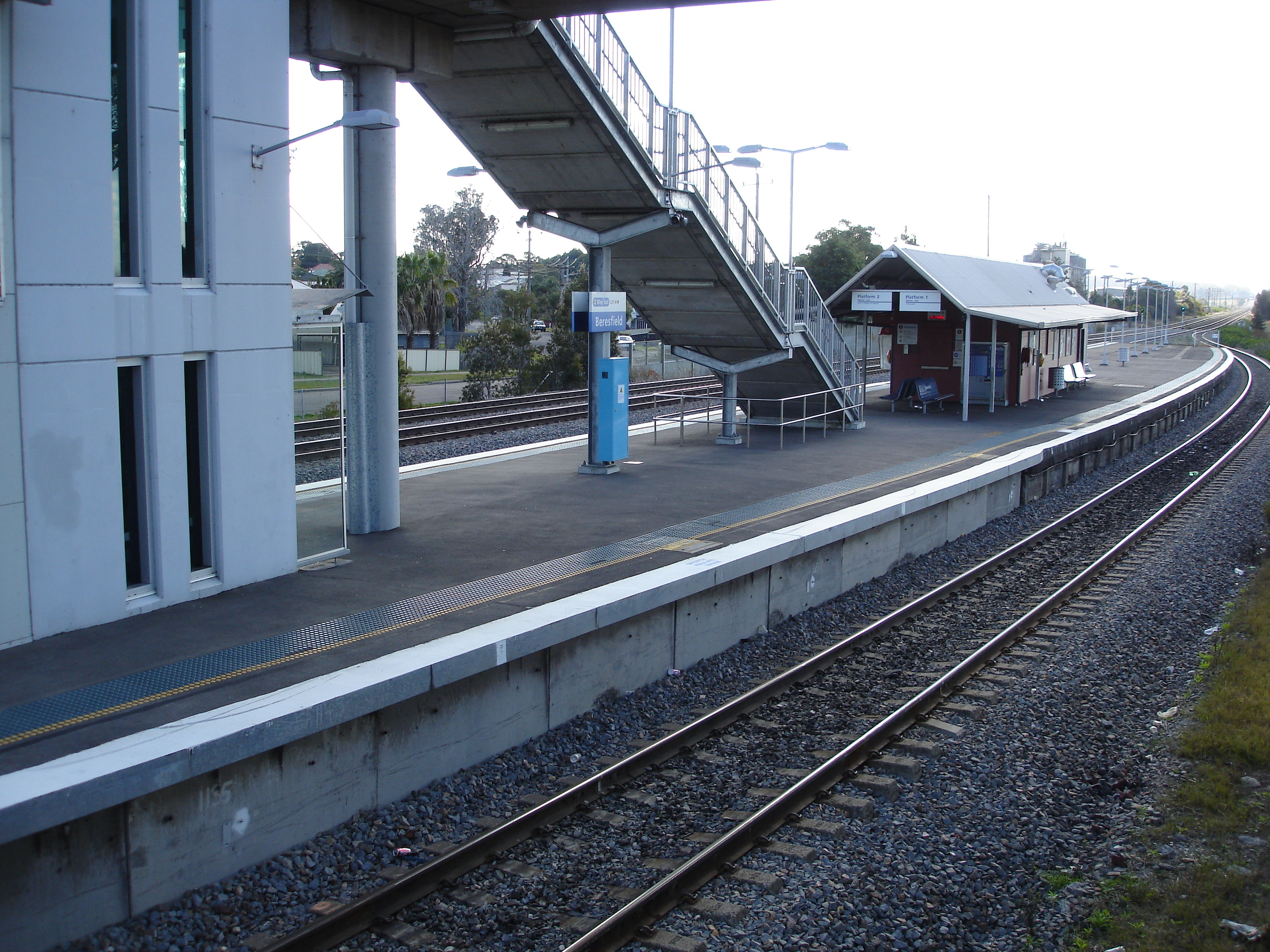 Beresfield Station taken by MrTwig